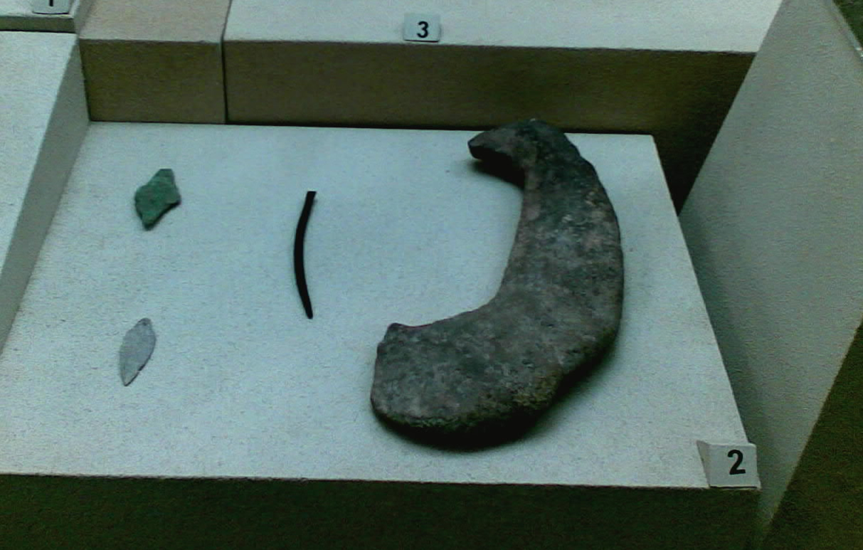 Exponates dated Copper Age from Kultepe I (Azerbaijan)